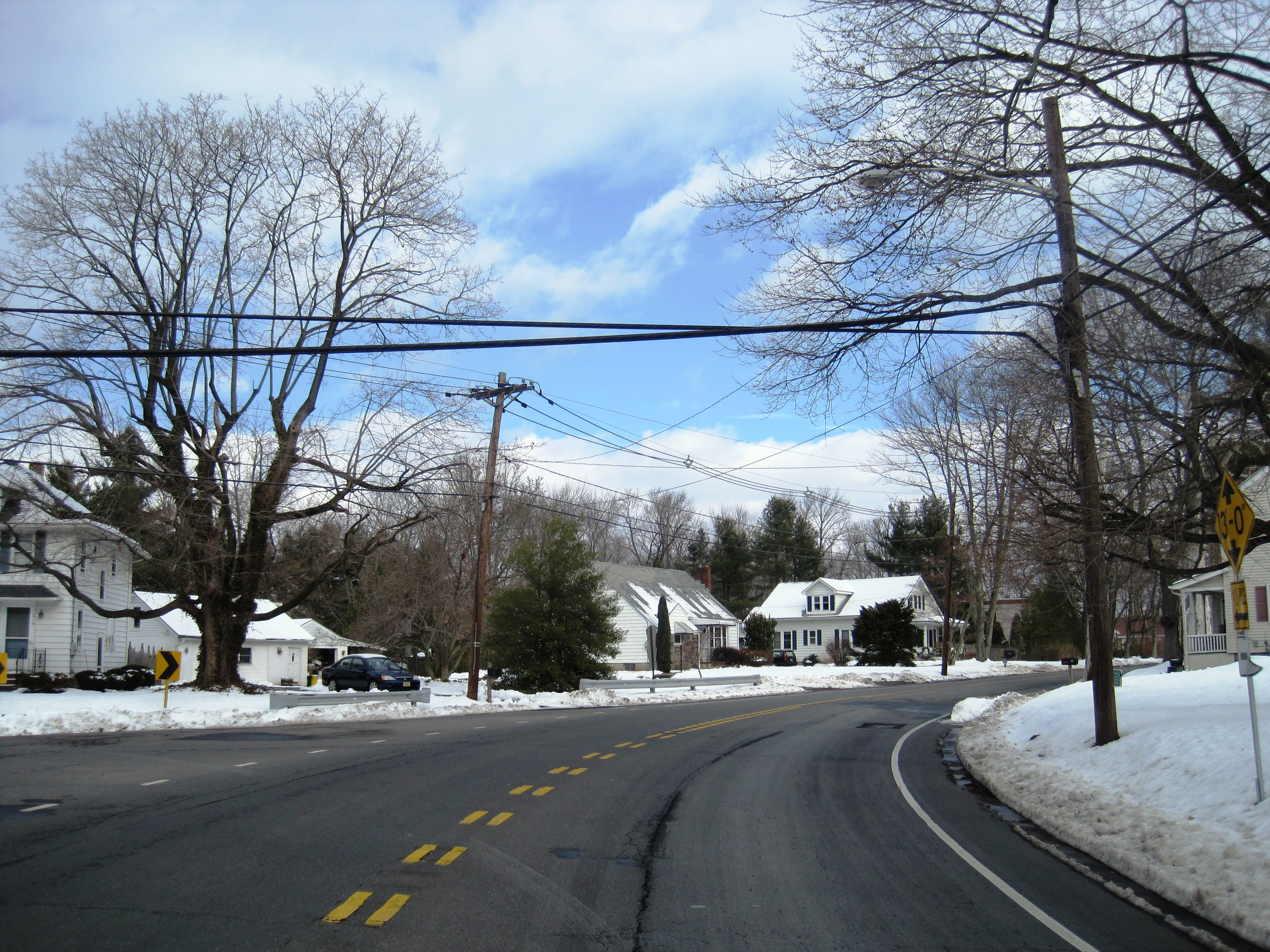 Photo of the intersection of County Route 654 (Hopewell-Pennington Road) and CR 612 (Woodsville-Marshalls Corner Road) in an unincorporated section of Hopewell Township, Mercer County, New Jersey called Marshalls Corner.